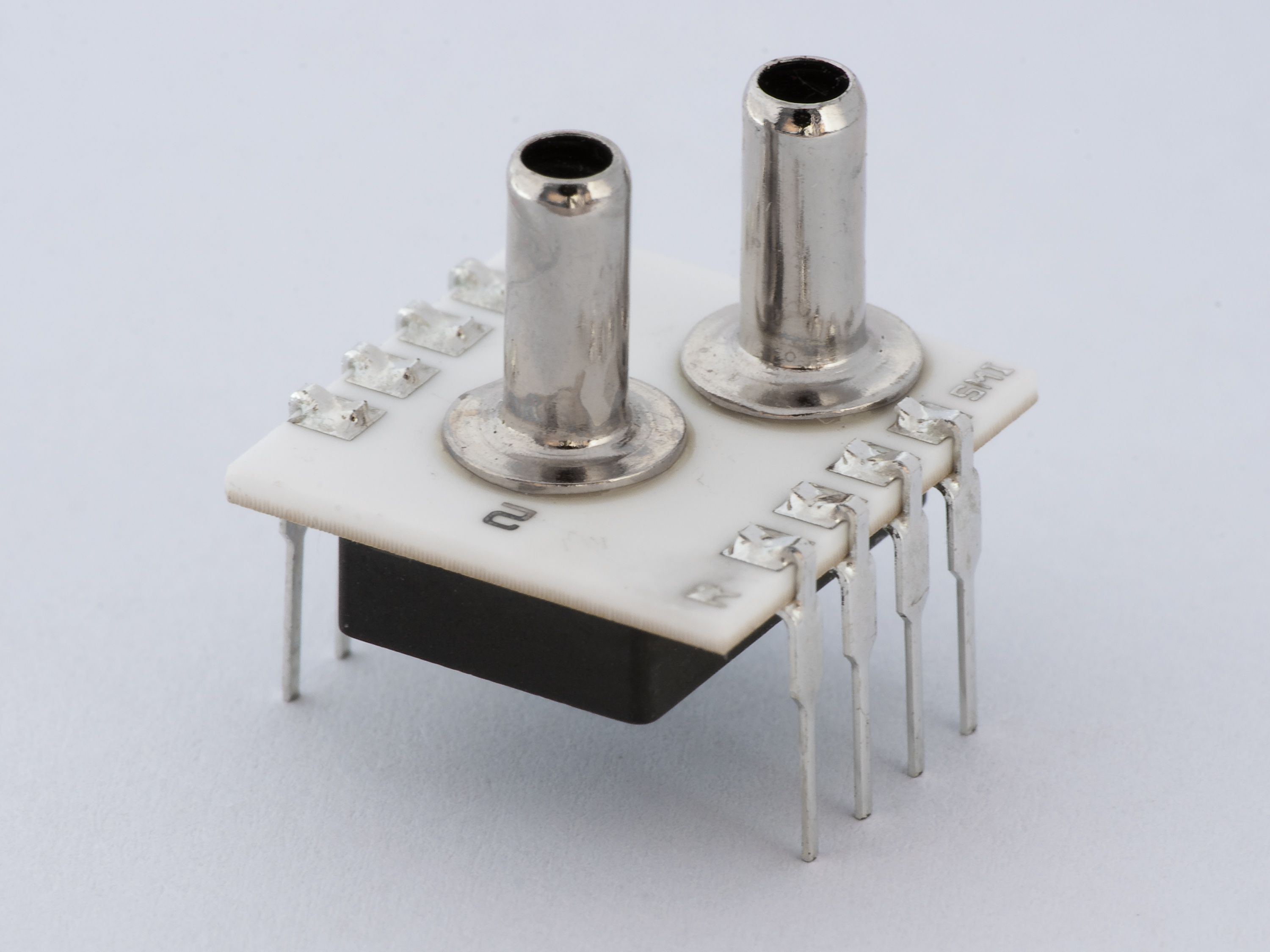 Digital differential pressure sensor for medical purposes from Silicon Microstructures. Measuring method: Piezoresistive effect